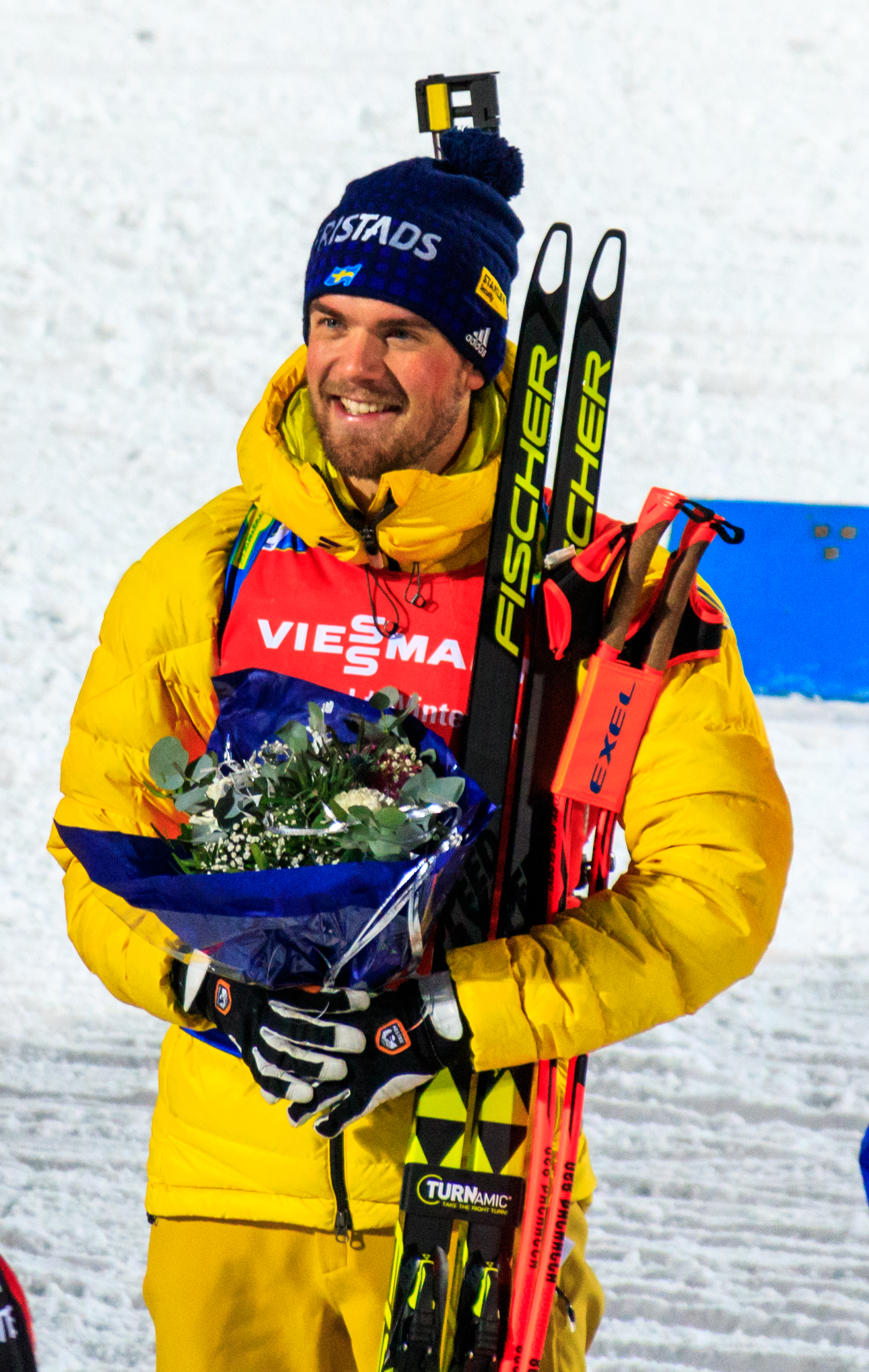 Fredrik Lindström in Östersund 2017